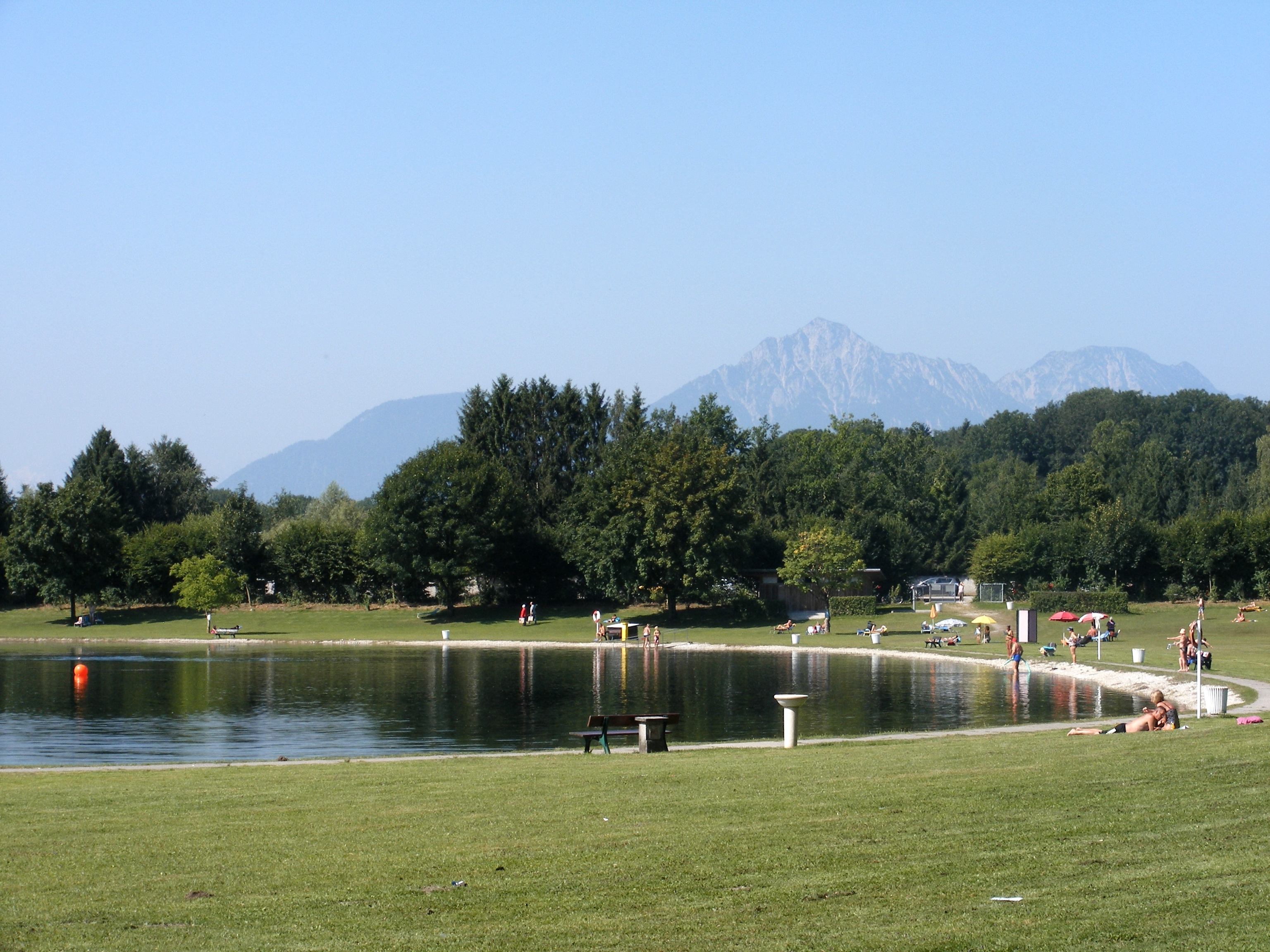 Bathing pond Liefering, city of Salzburg, Austria